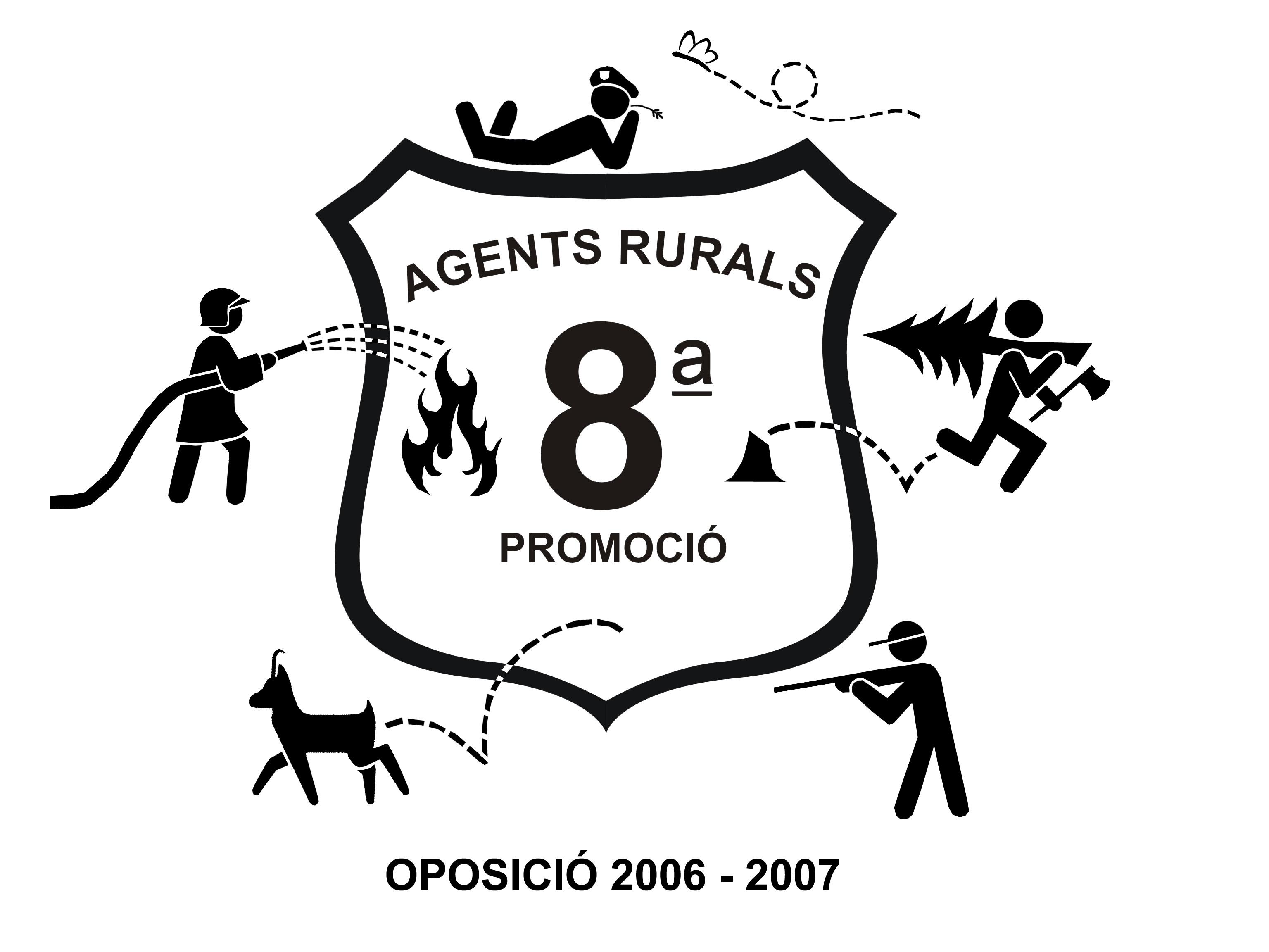 Unofficial logo promoting the 8th rangers